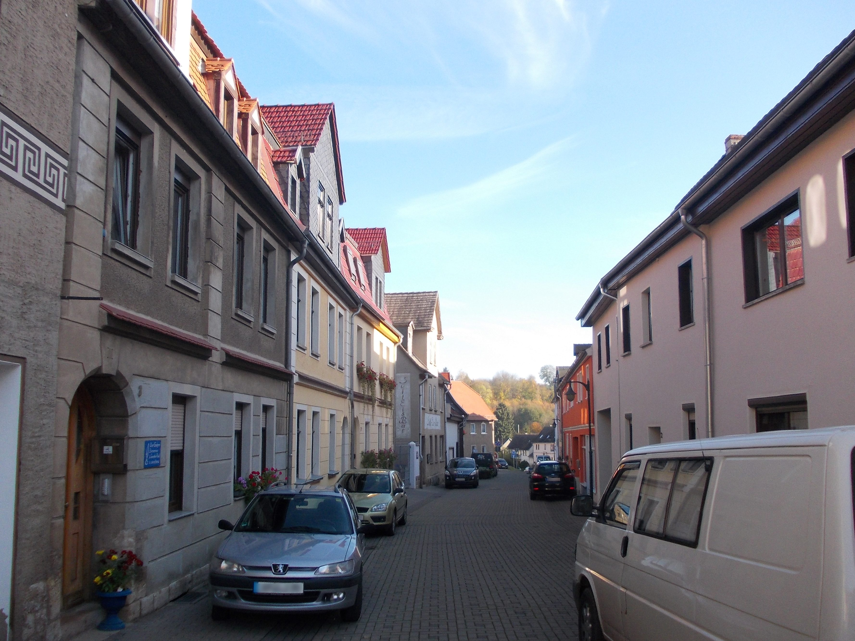 Müllerhartungstrasse in Bad Sulza (Weimarer Land district, Thuringia)